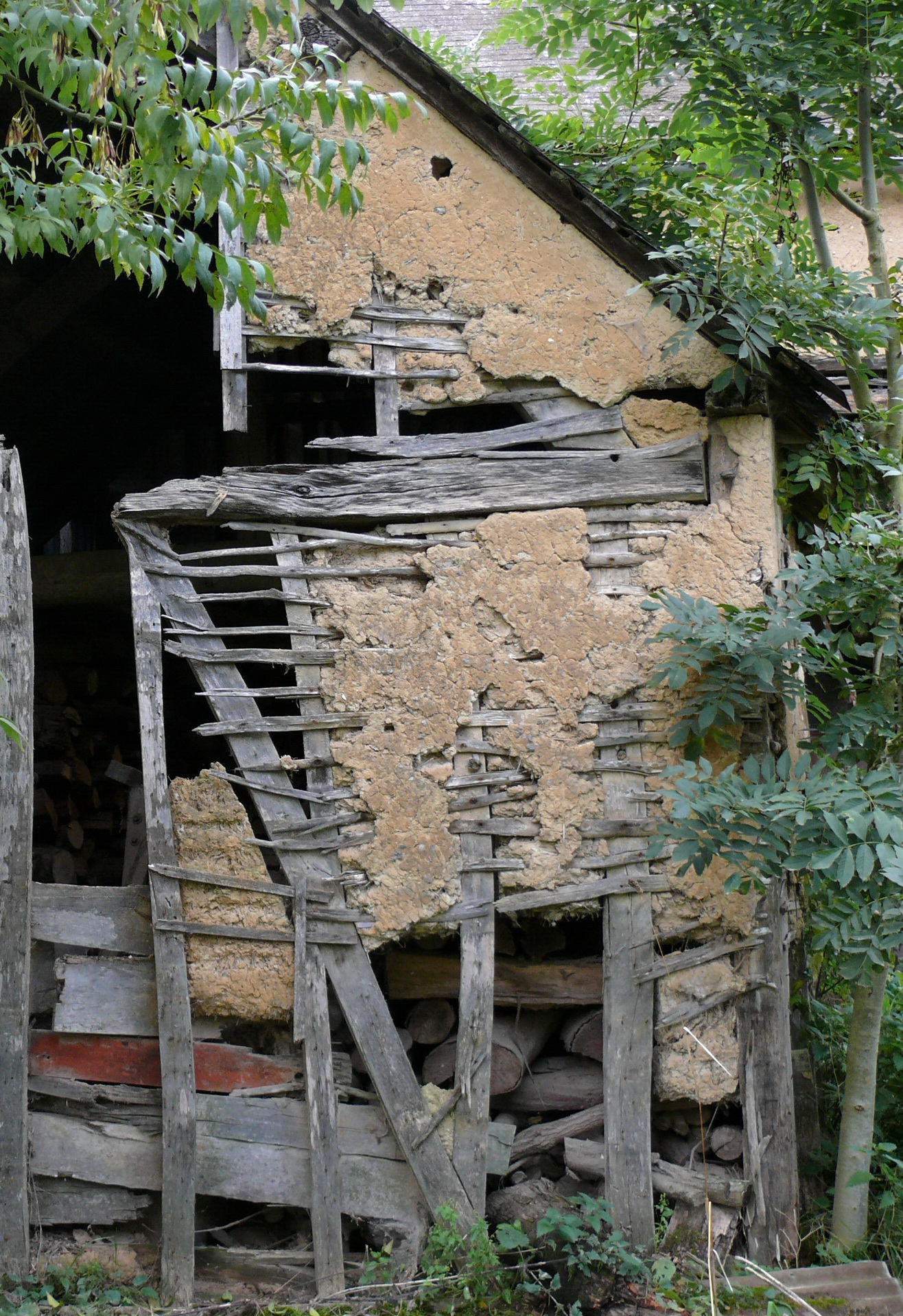 Remains of a barn in Picardy (France), made with Wattle and daub, showing the constructive device : the mud is supported by wooden slats, set themselves on the beams of the building structure. This device is placed on a foundation of stone or brick, to prevent rising damp and rotting frames. Photo taken in Catheux (Oise - Picardy - France)